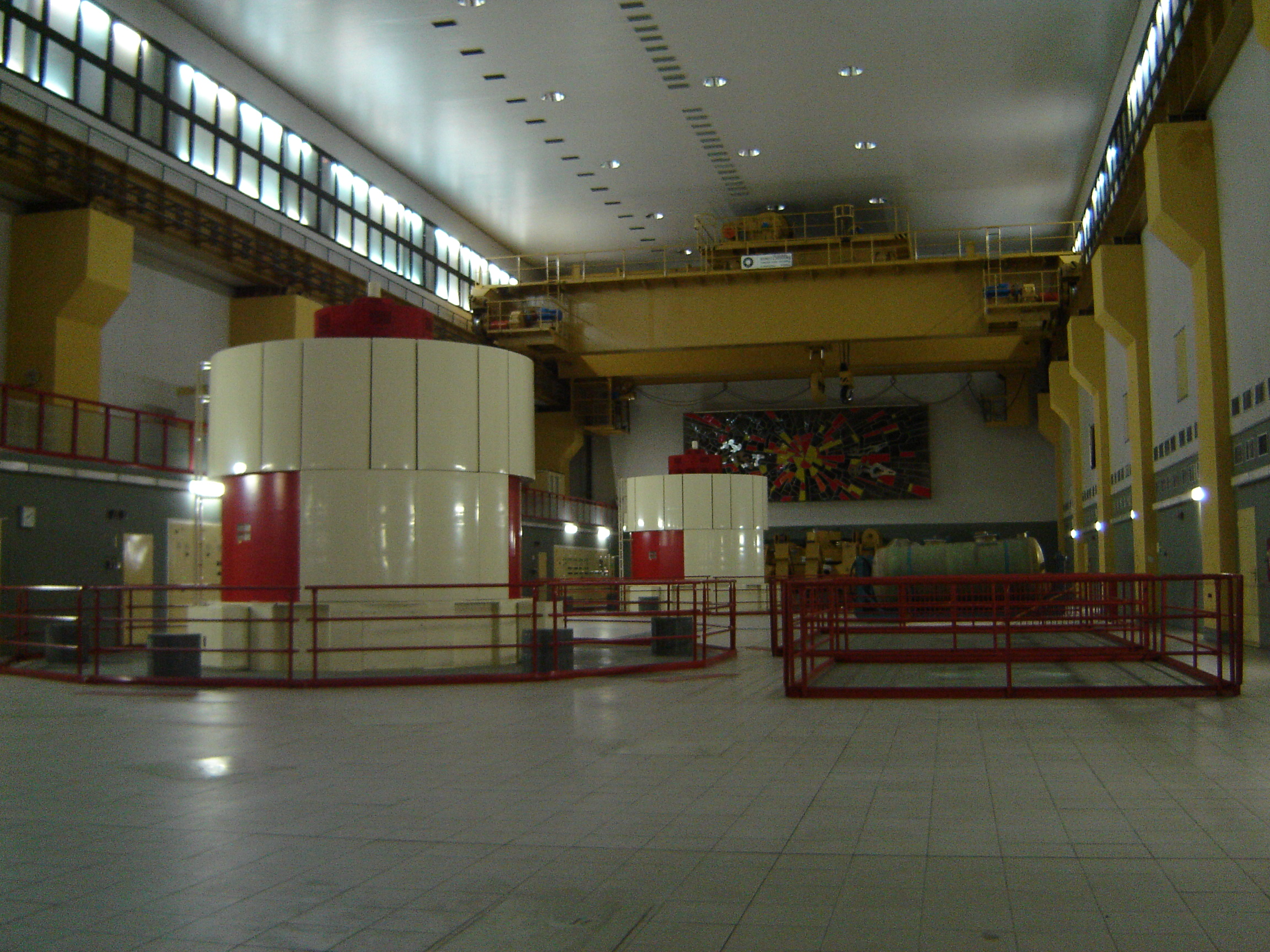 Dlouhé Stráně, the top level of the turbine cavern